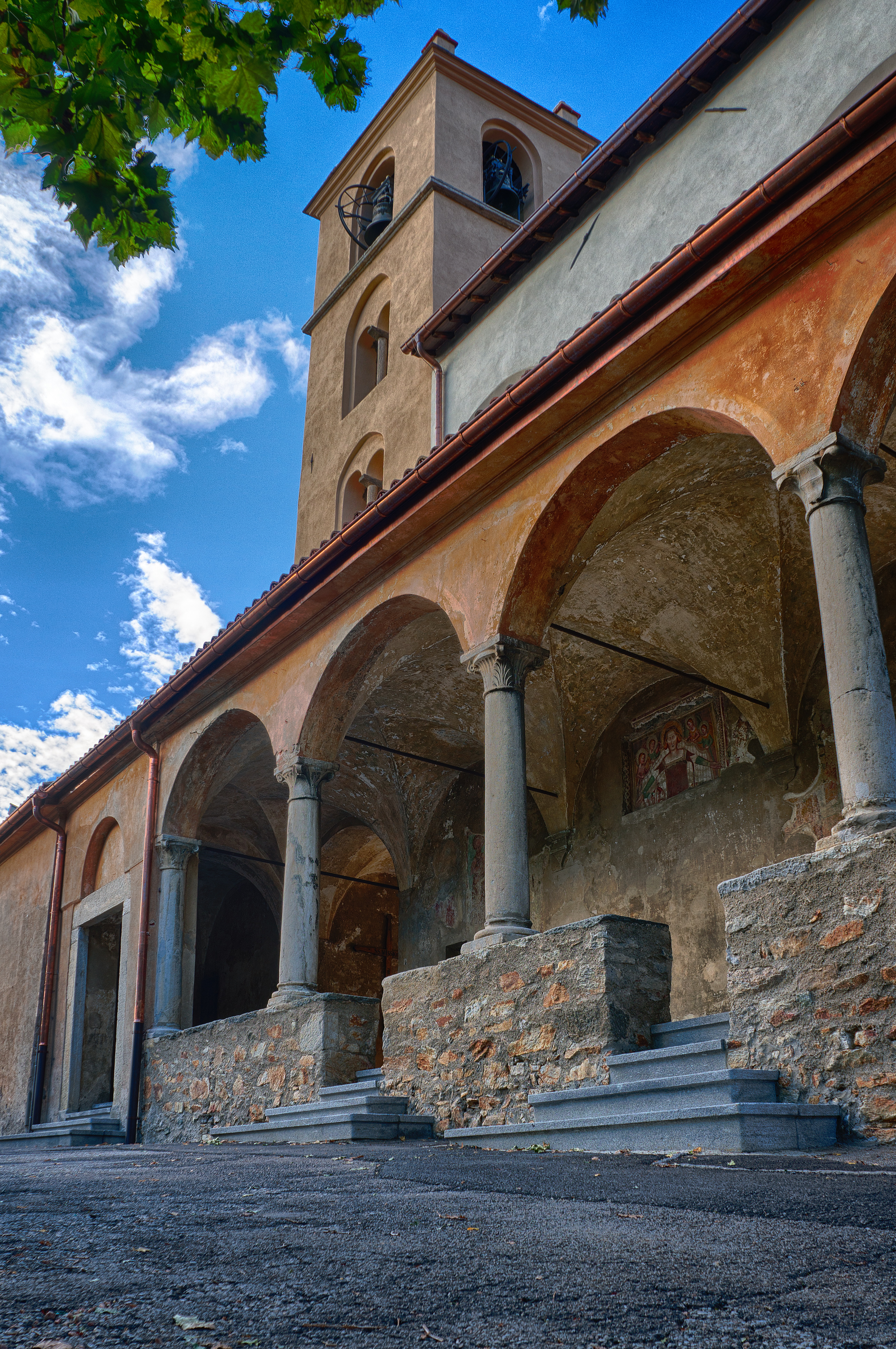 Chiesa di Santa Maria Assunta